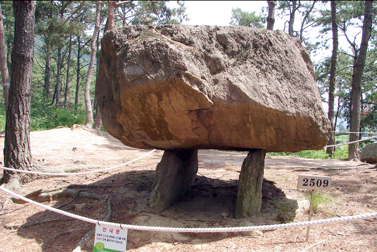 One of the dolmens at the Gochang Jungnim-ri Dolmens that are centered in Maesan village, Gochang County, North Jeolla province